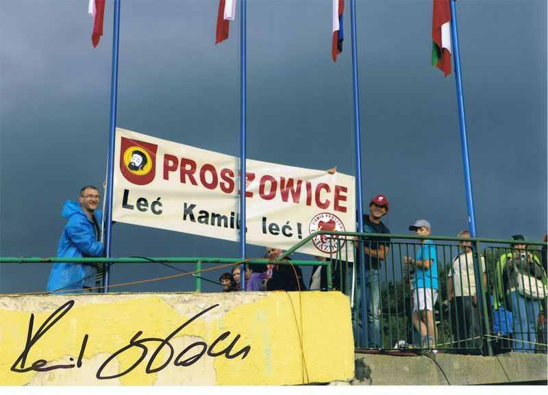 Fan club of Kamil Stoch during Summer Grand Prix in Zakopane 2011.